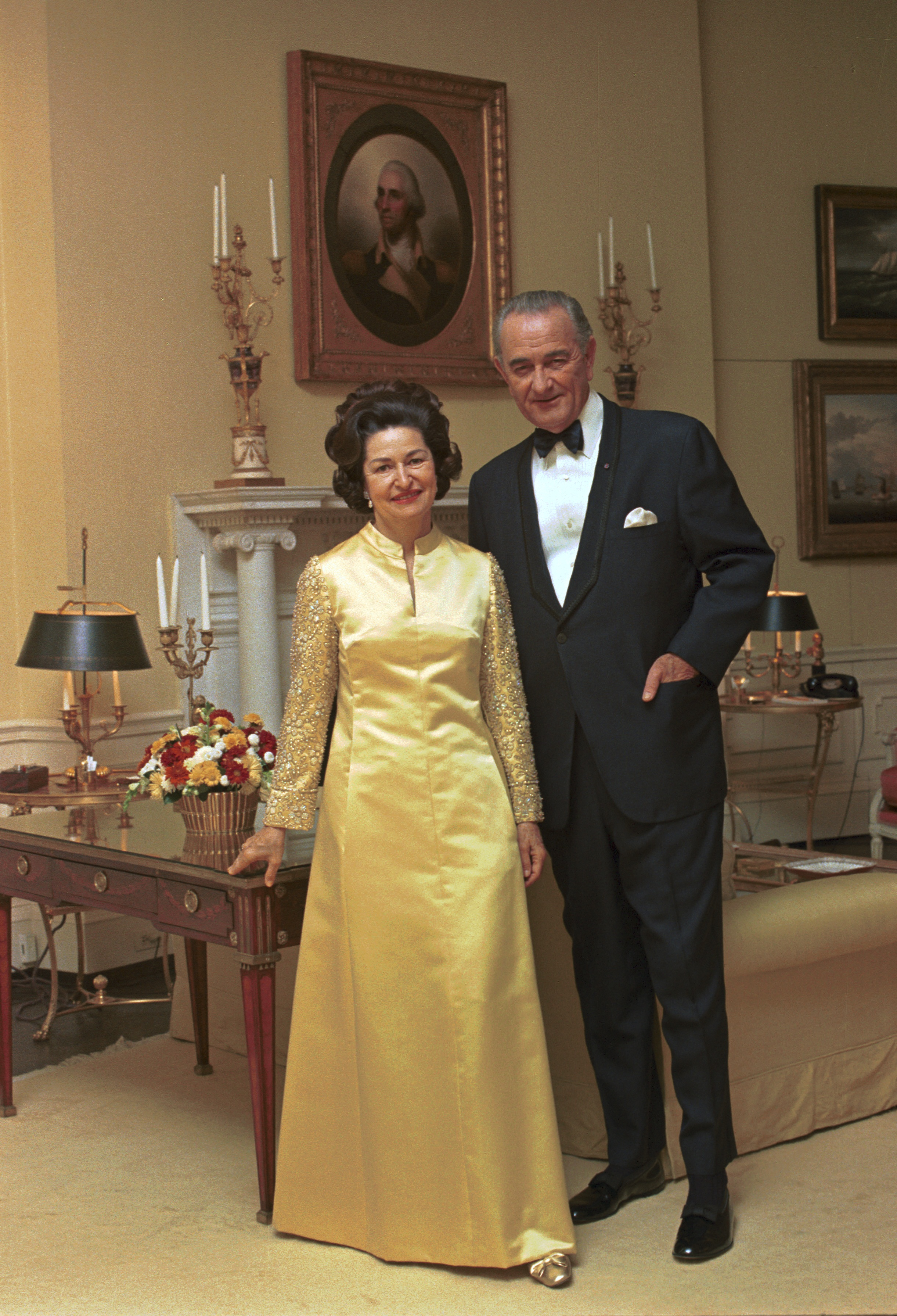 President Johnson with his wife Lady Bird Johnson